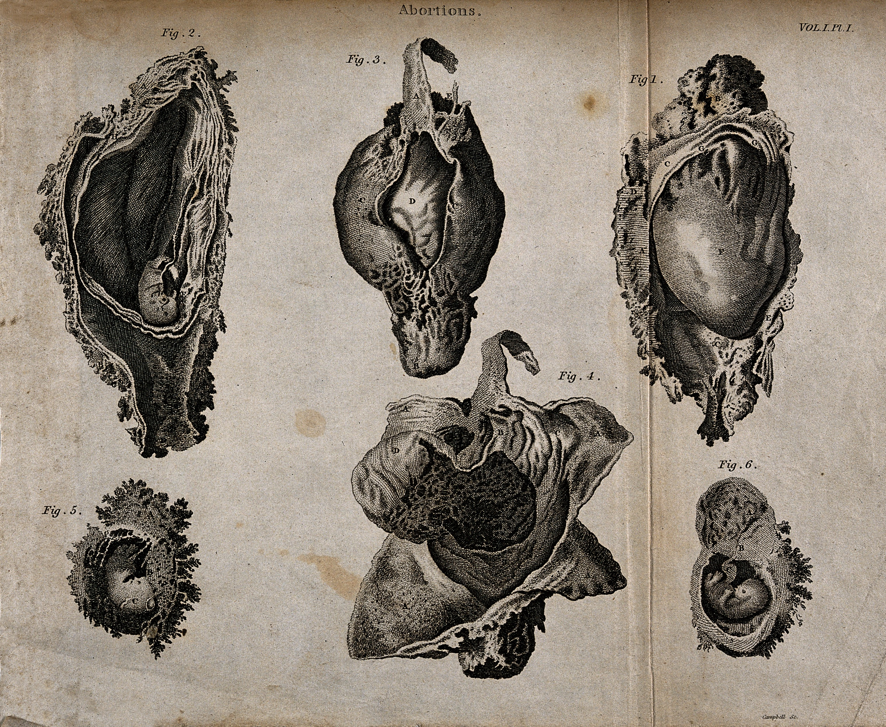 Six diagrams of abortions at different stages. Engraving by Campbell. Iconographic Collections Keywords: intaglio; gynaecological; ABORTION; Campbell; campbell; ic